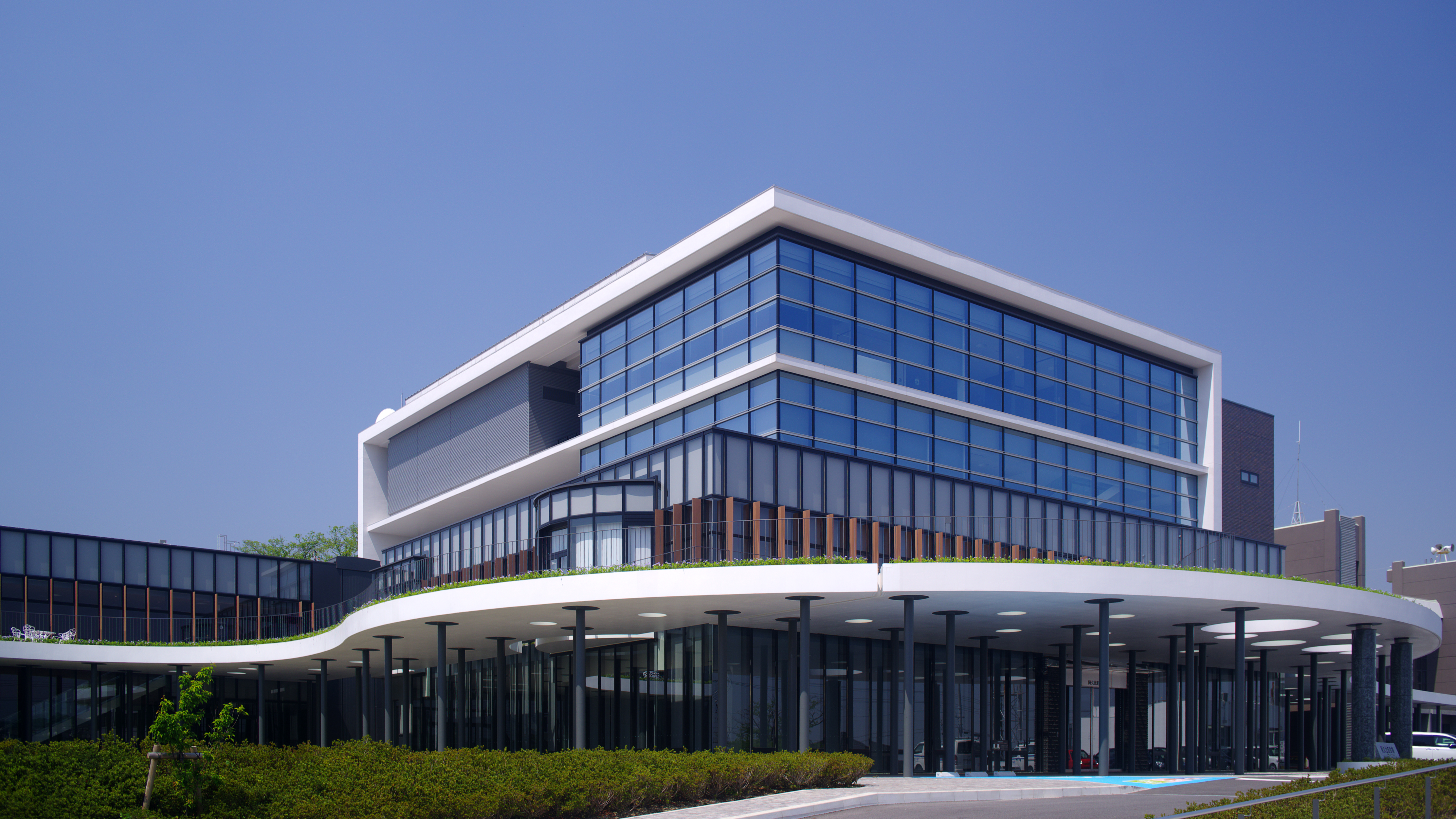 Agui Town Office, Aichi Prefecture. Used digital shift.